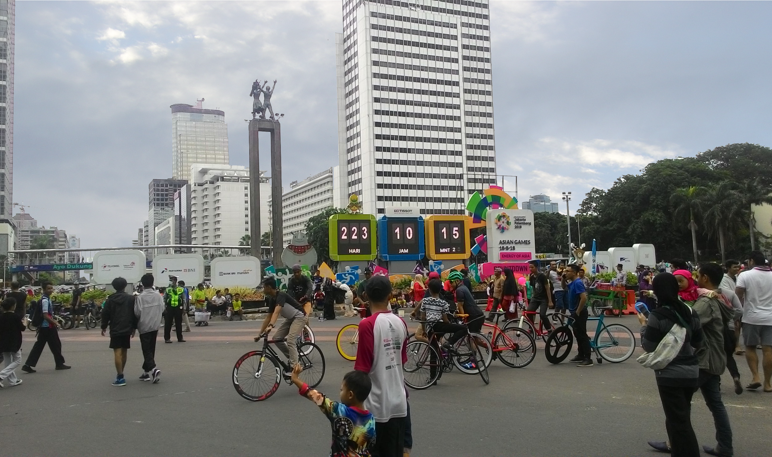 2018 Asian Games Countdown Clock in Jakarta during a car-free day